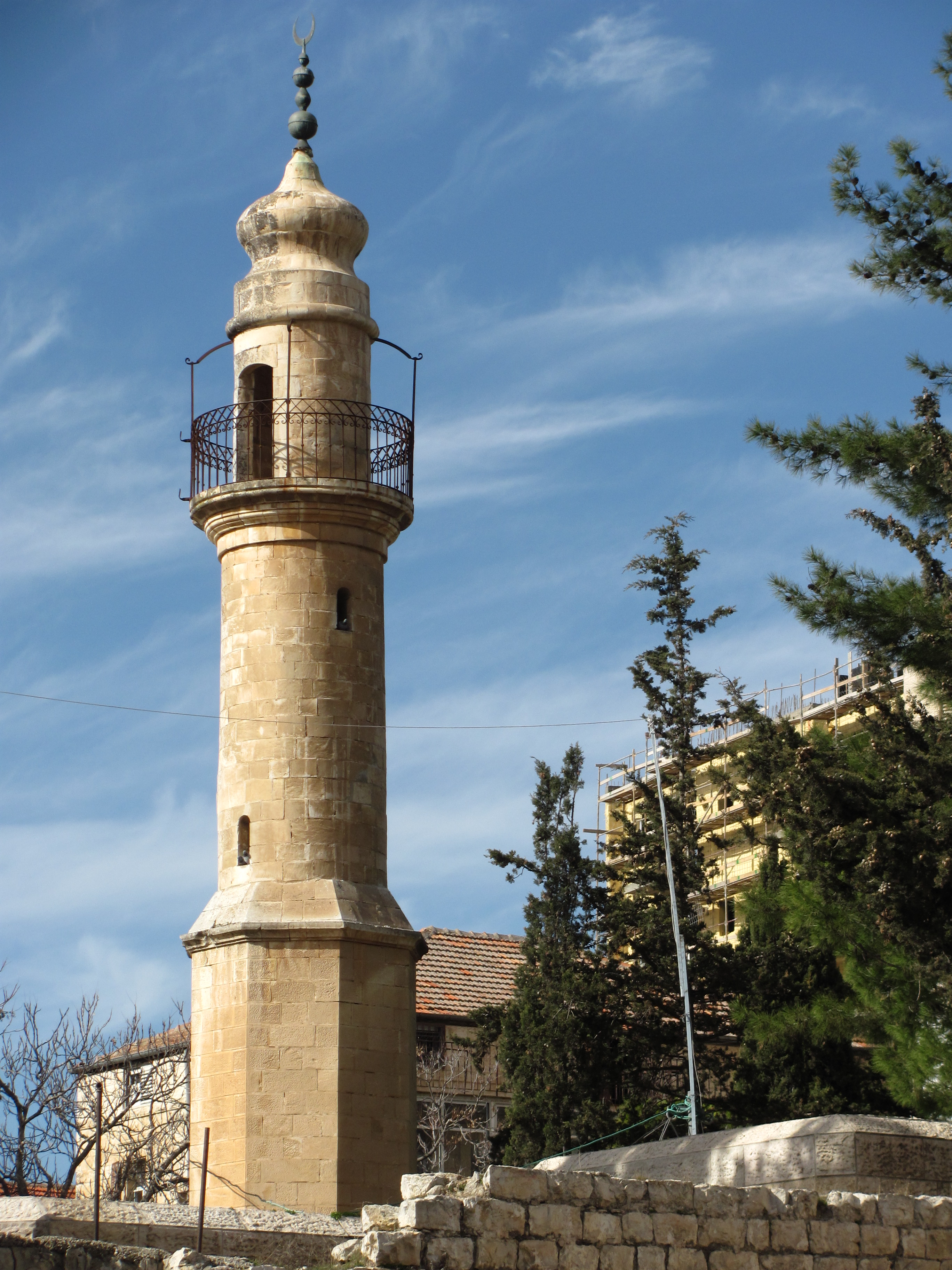 Nebi Akasha Mosque, located between Straus Street and Yeshayahu Street, Jerusalem